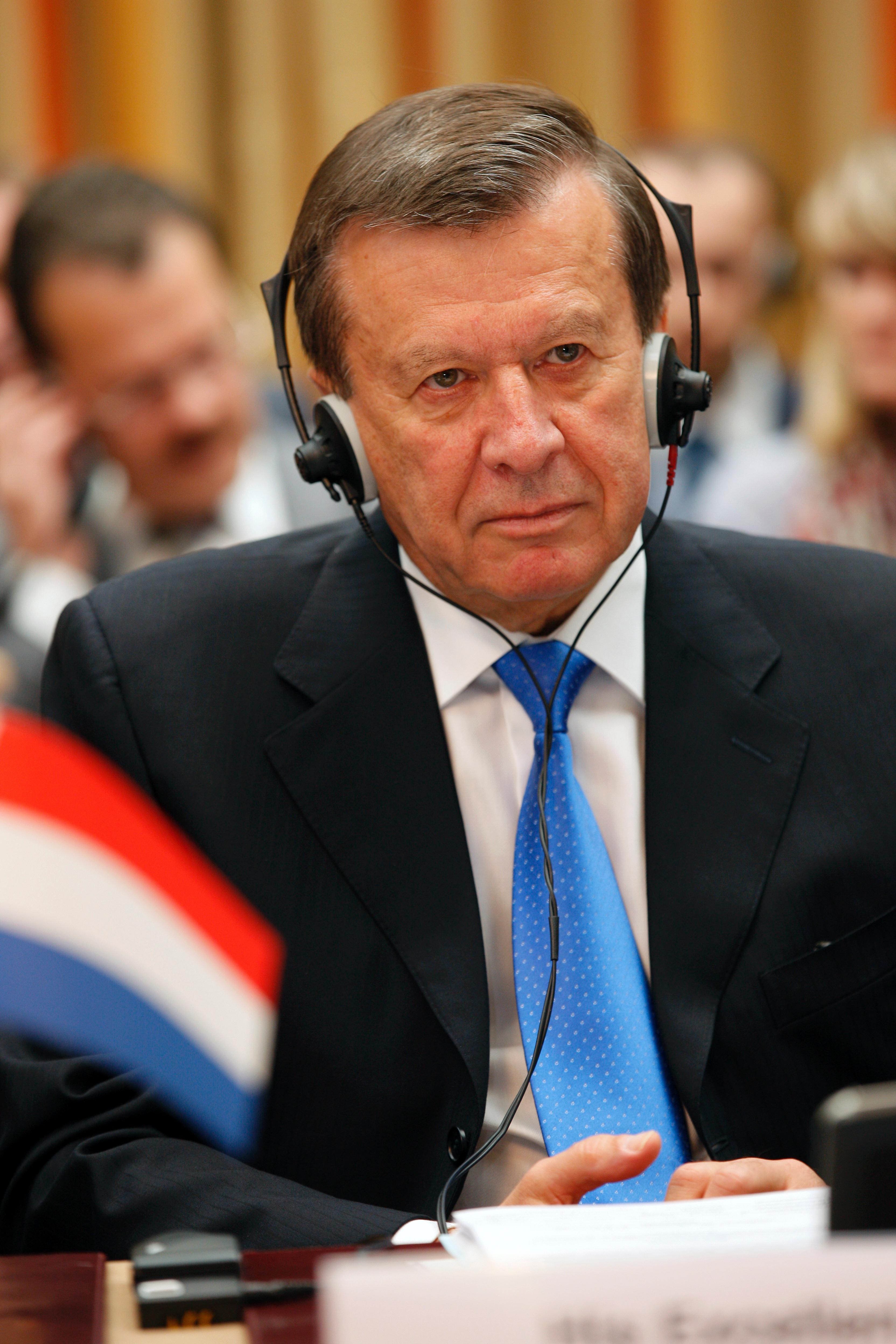 Russion foreign minister Viktor Zubkov visits his Dutch collegue.